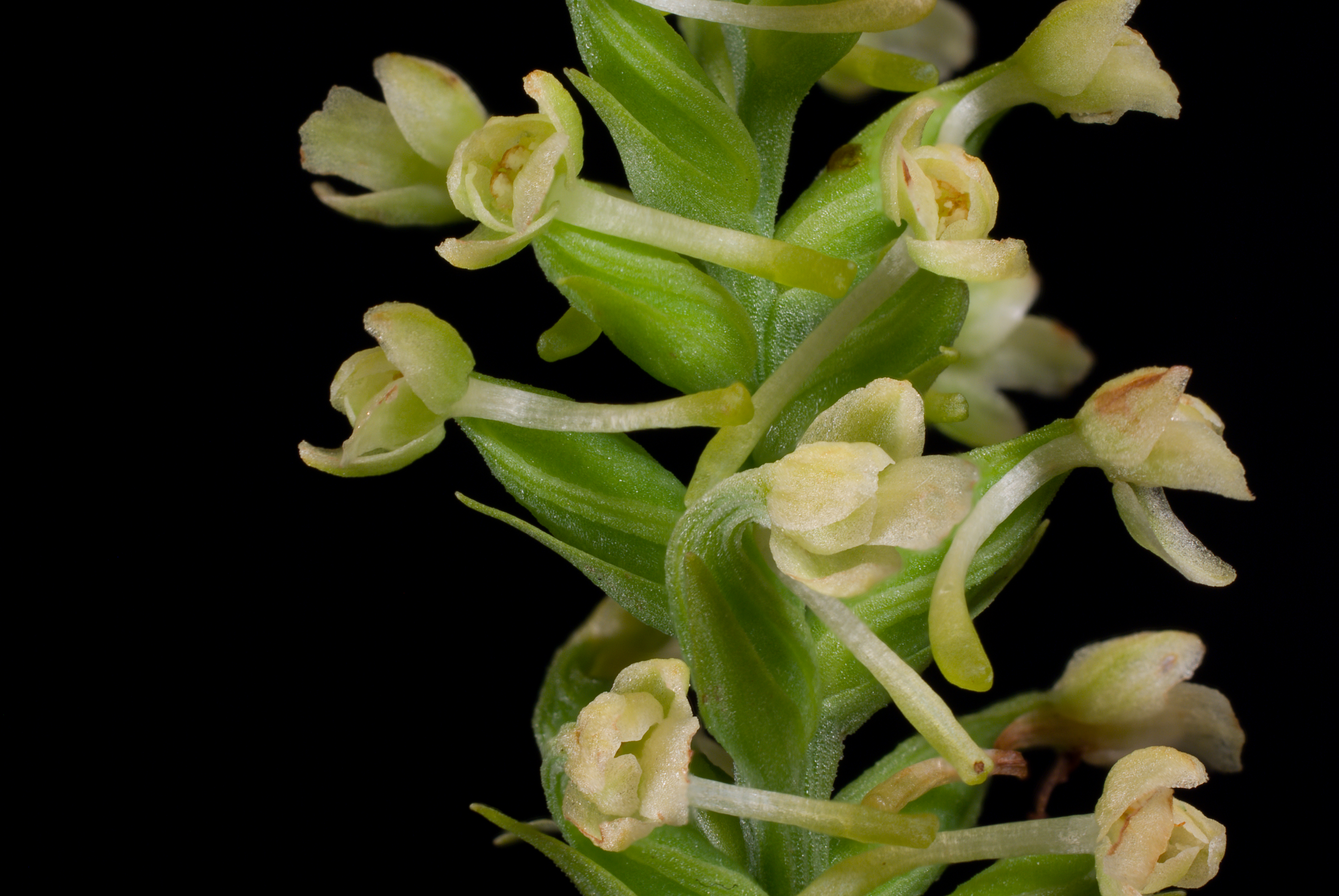 Little Club Spur Orchid (Platanthera clavellata)